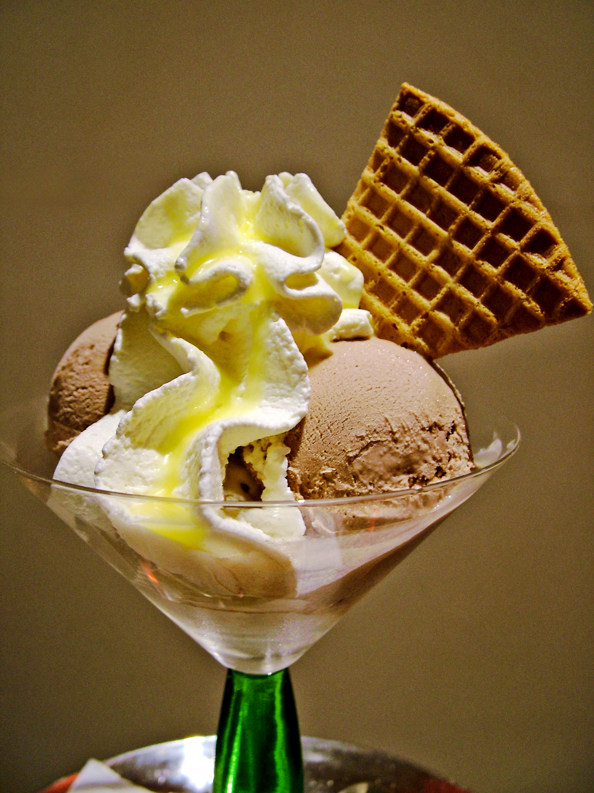 Ice Cream Dessert